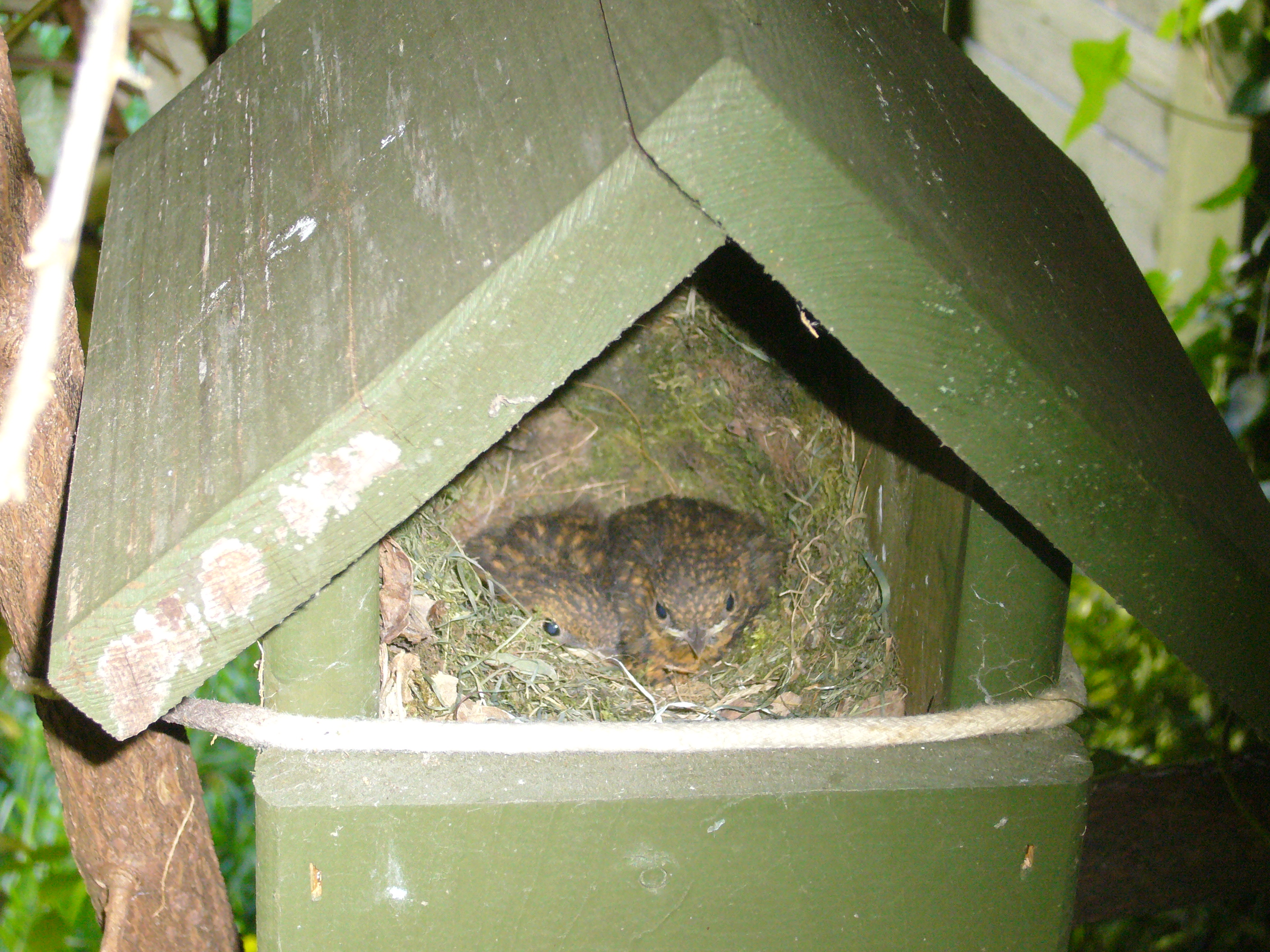 Fledgling European Robins, pictured within 24 hours of leaving the nest.